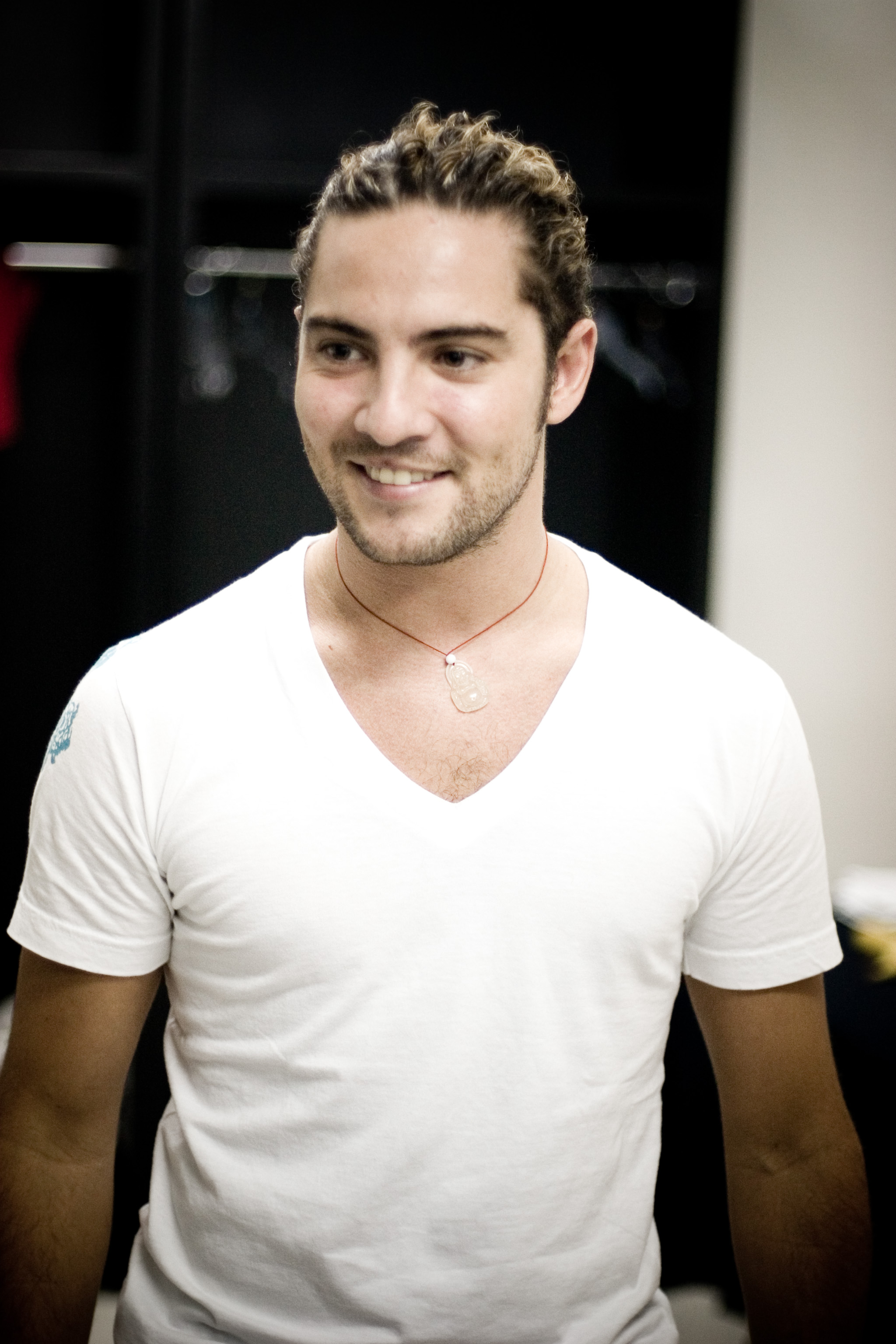 David Bisbal in Mexico City, Distrito Federal, Mexico